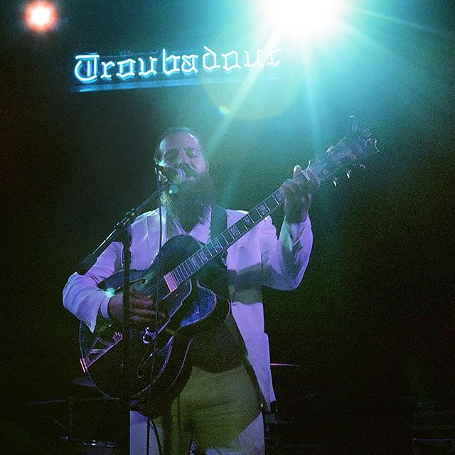 Jon DeRosa at the Troubador